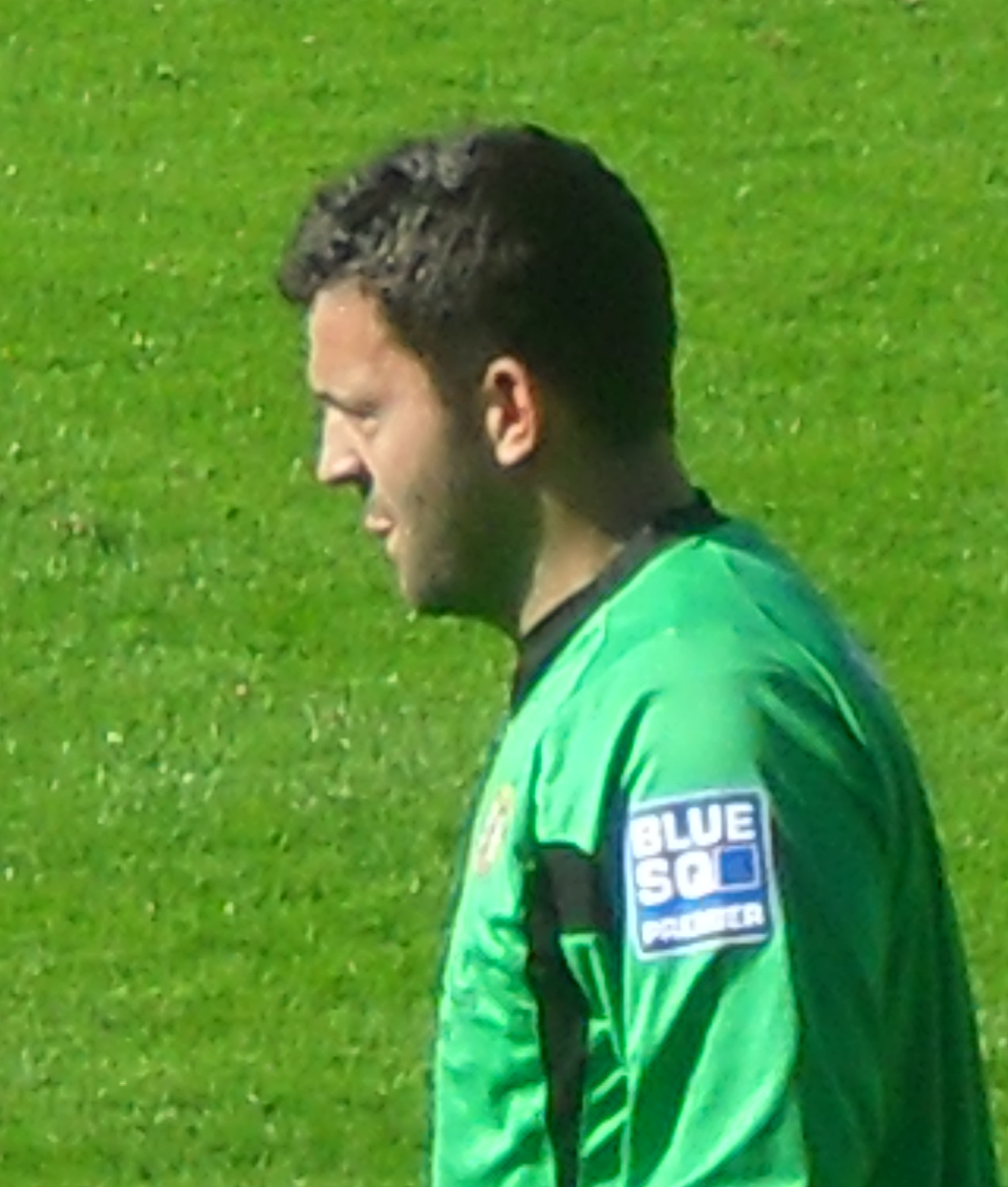 Lee Harper